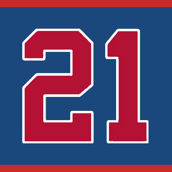 Illustration of Warren Spahn's Retired Braves Number